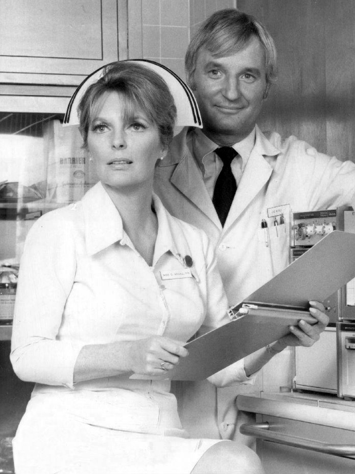 Photo of Julie London (Dixie McCall) and Bobby Troup (Dr. Joe Early) from the first season (Jan–Apr 1972) of the series Emergency. The pair were husband and wife in real life.